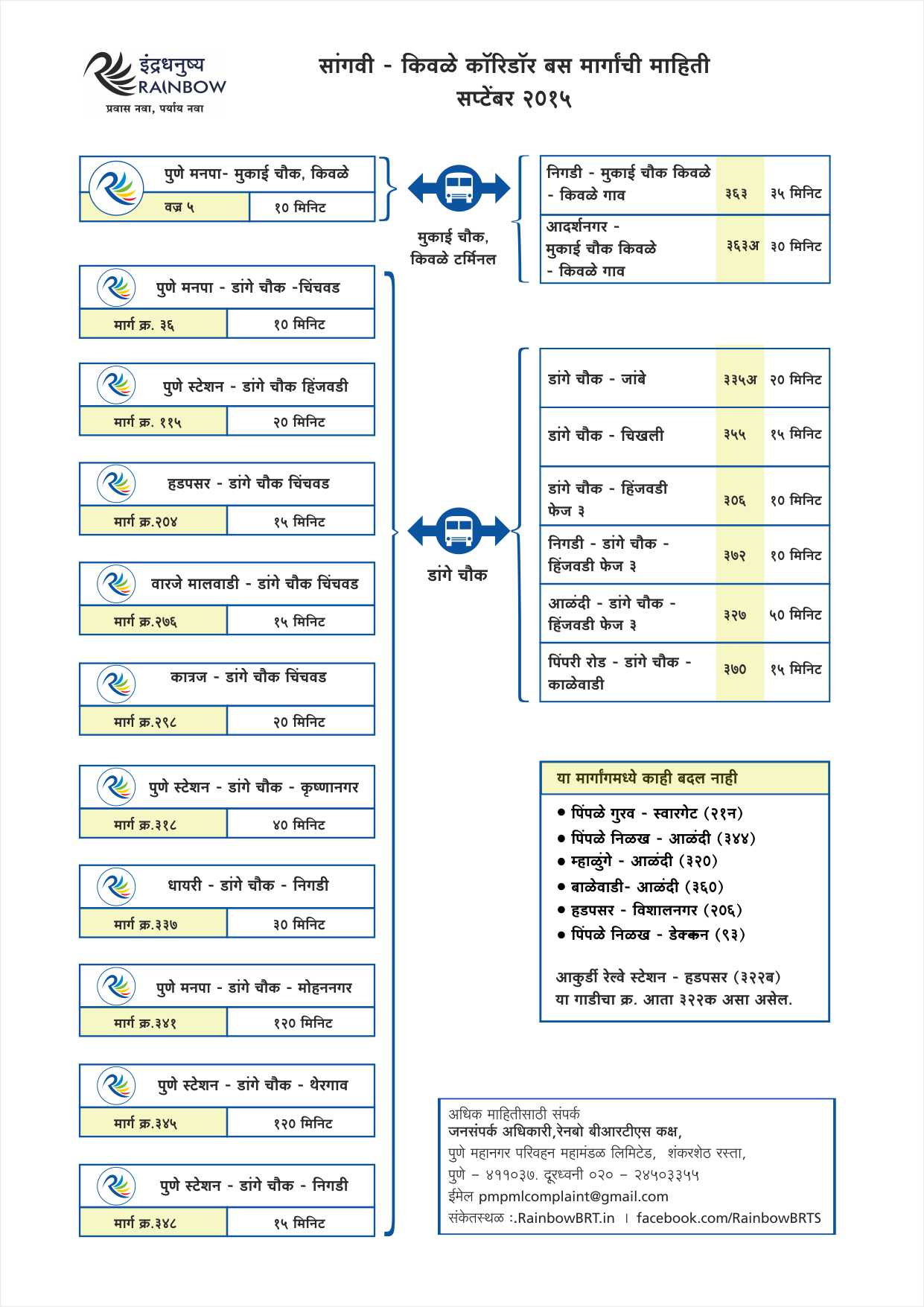 Sangvi-kiwle route info marathi